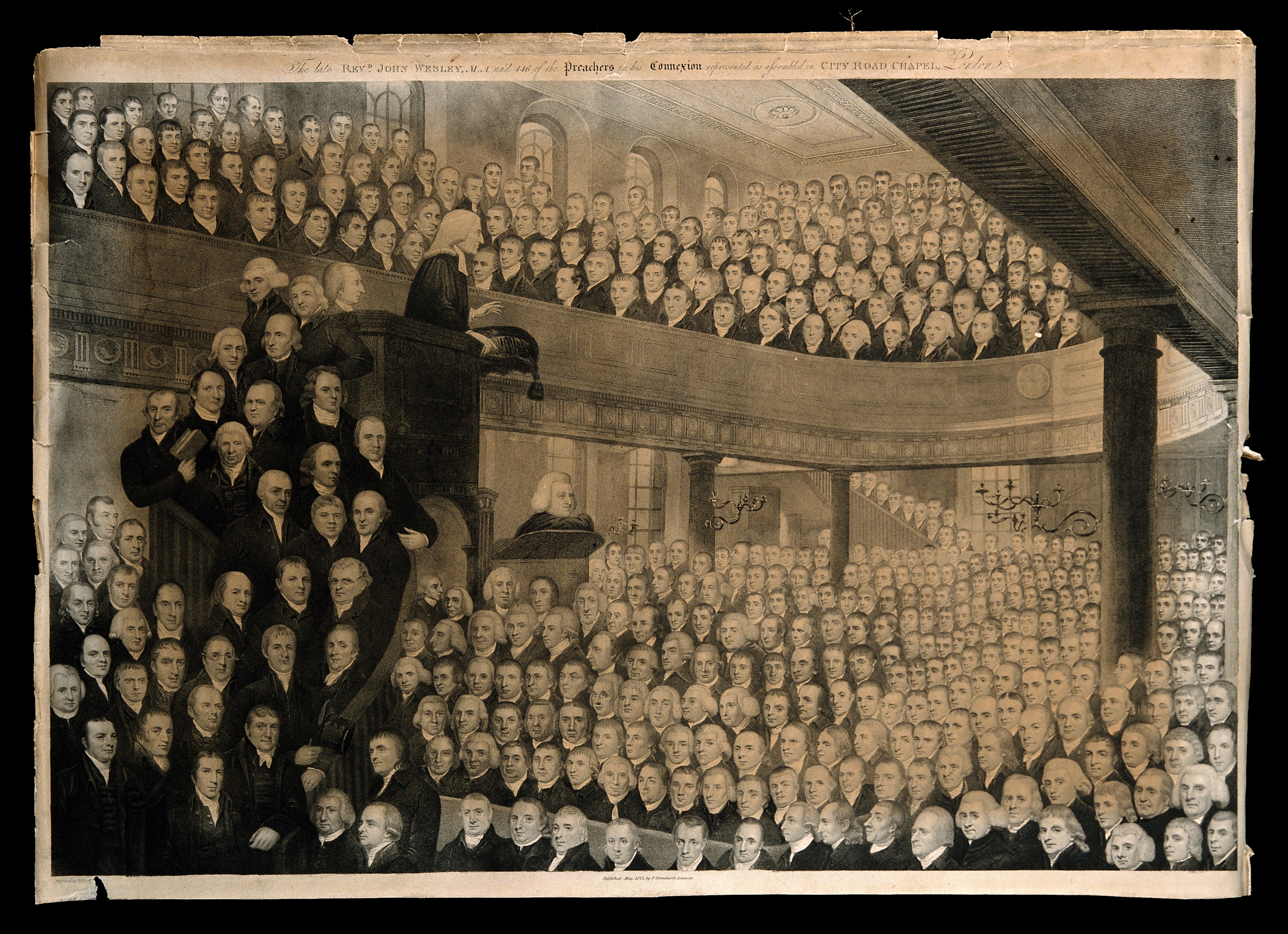 John Wesley preaching in the City Chapel. Engraving by T. Blood, 1822. Iconographic Collections Keywords: John Wesley; Charles Wesley